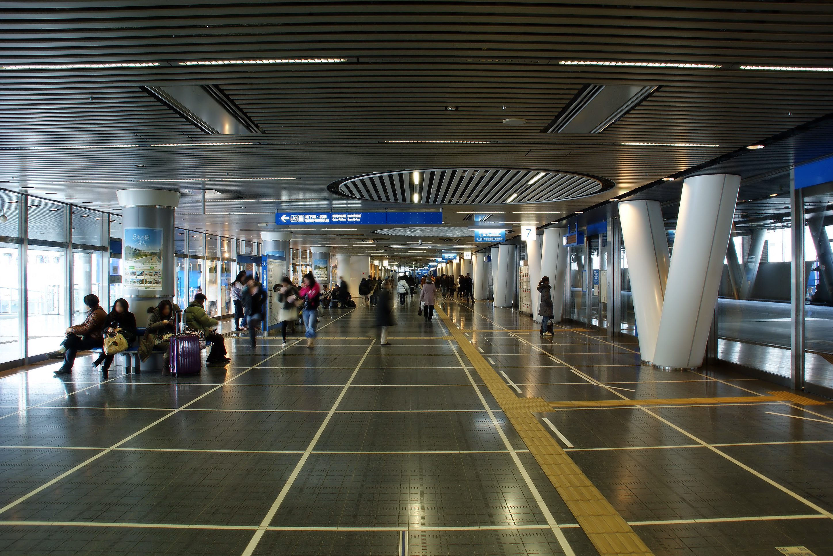 Oasis 21, Sakae Bus Terminal.(Higashi Ward, Nagoya City, Aichi Prefecture, Japan)